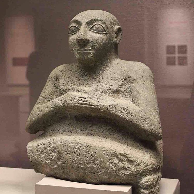 Stone statue of Kurlil Early Dynastic III 2500 BC Tell Al-'Ubaid, Iraq. This statue, found beside the ruins of the Ninhursag temple, is typical of Sumerian votive or worshipper figurines dedicated in temples on behalf of their donors.